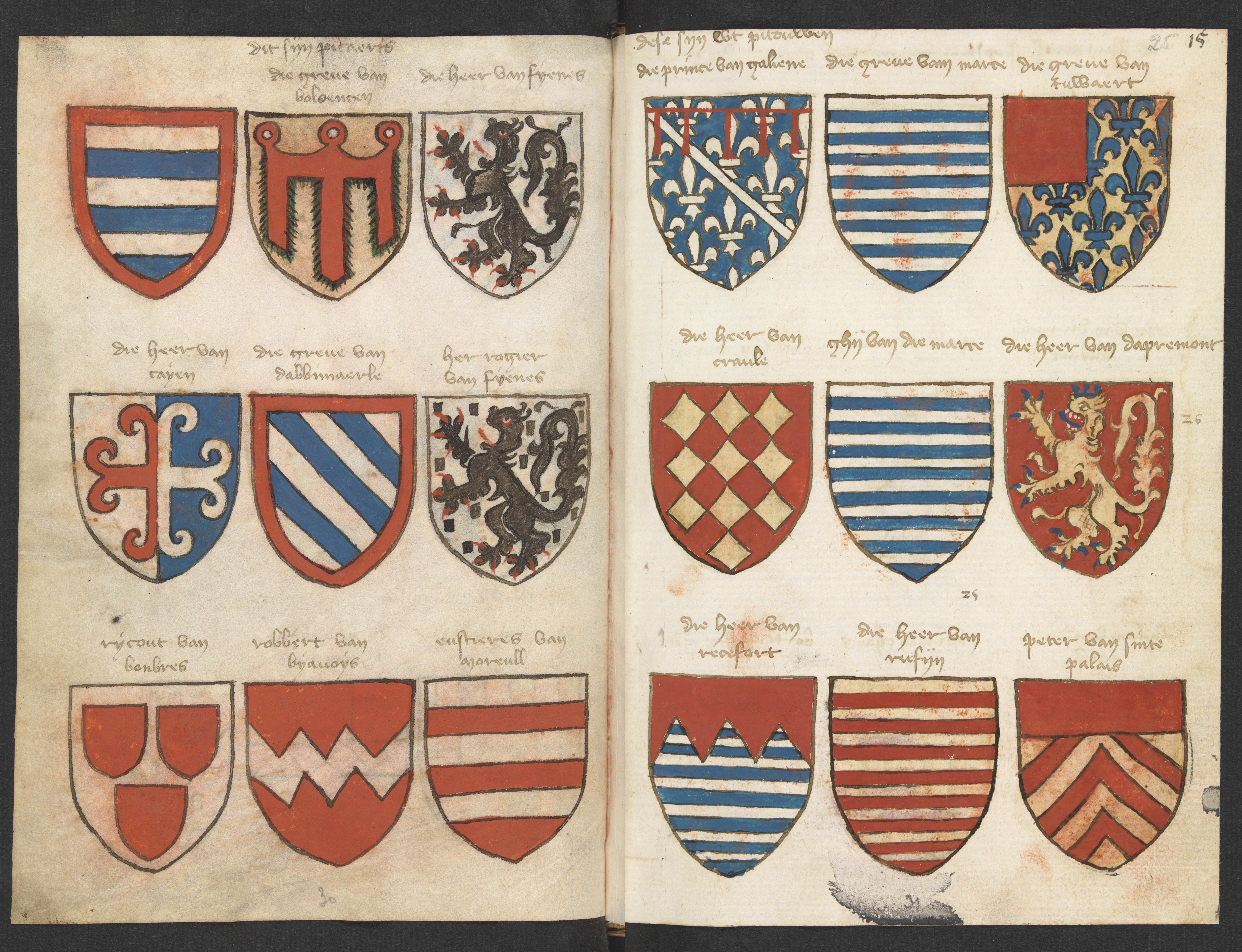 Lefthand side folio 024v; righthand side folio 025r from the Beyeren armorial / Wapenboek Beyeren